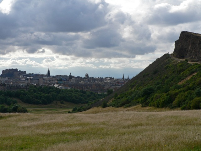 Edinburgh. View from Arthur's Seat